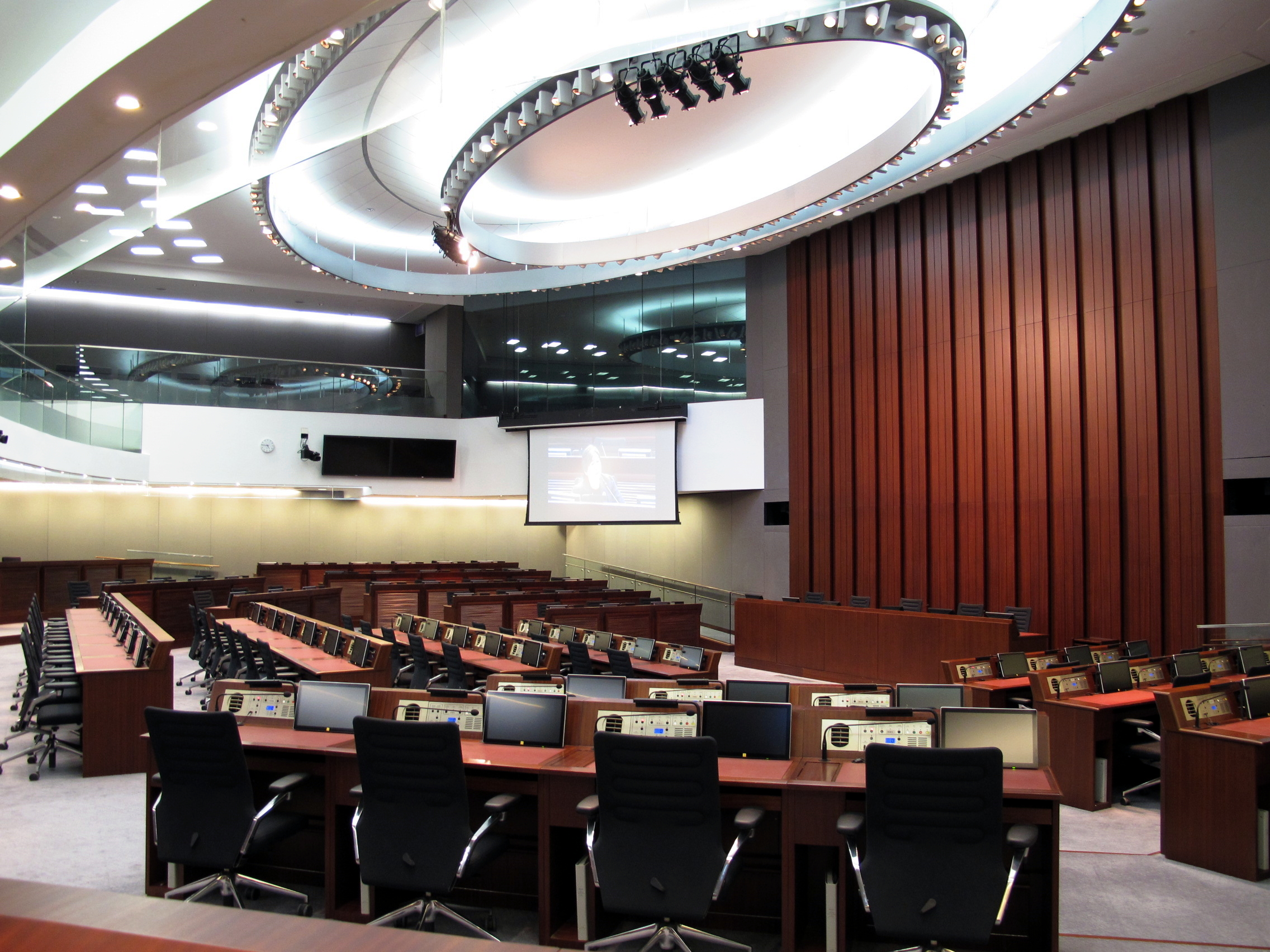 Legislative Council Complex Conference Room1